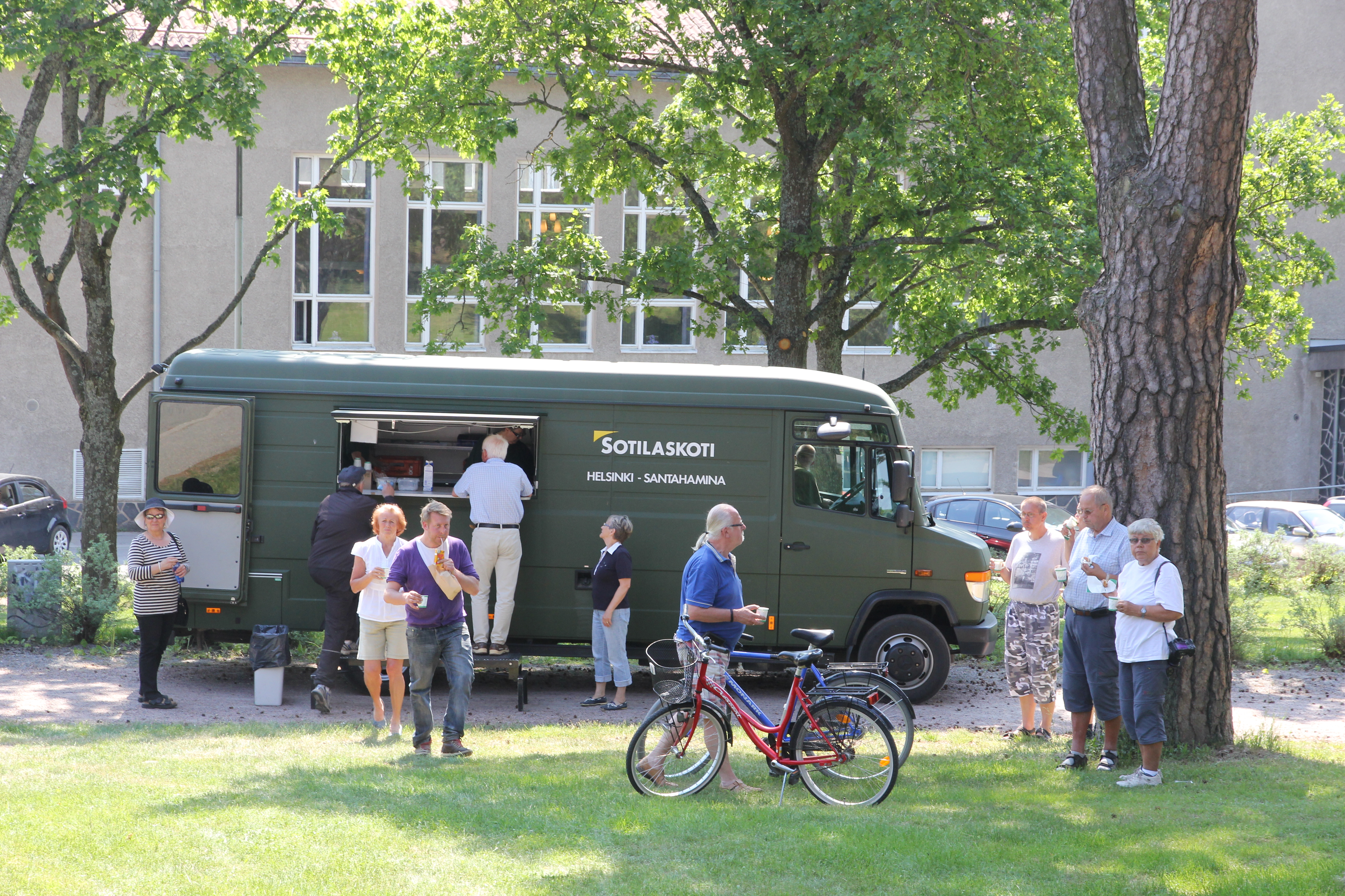 Soldier's home organization (sotilaskoti) mobile canteen during the Finnish military Flag Day 2013 in Tammisaari.